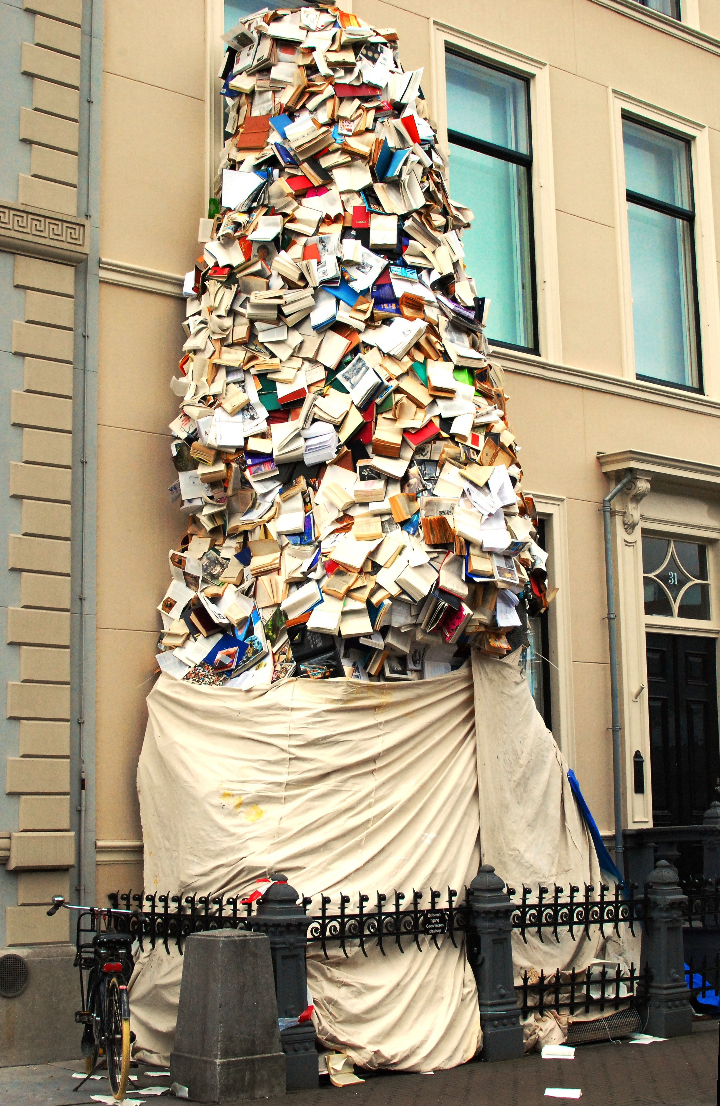 Book sculpture by Alicia Martin at the roadside front of Museum Meermanno, Prinsessegracht 30, Den Haag. The photographical reproduction of this work is covered under the article 18 of the Dutch copyright law, which states that “it is not an infringement of copyright to reproduce and publish pictures of a work, as meant in article 10, first paragraph, under 6°[1] or of an architectural work as meant in article 10, first paragraph, under 8°[2], which are made to be permanently located in a public place, as long as the work is depicted as it is located in the public space. Where incorporation of a work in a compilation is concerned, not more than a few of the works of the same author may be included”. [1] drawings, paintings, works of architecture and sculpture, lithographs, engravings and the likes [2] drafts, sketches and three-dimensional works relating to architecture, geography, topography or other sciences Note that photographs are not included in Item 6. They are separately listed at Item 9 and are therefore not covered by FOP. See COM:CRT/Netherlands#Freedom of panorama for more information.